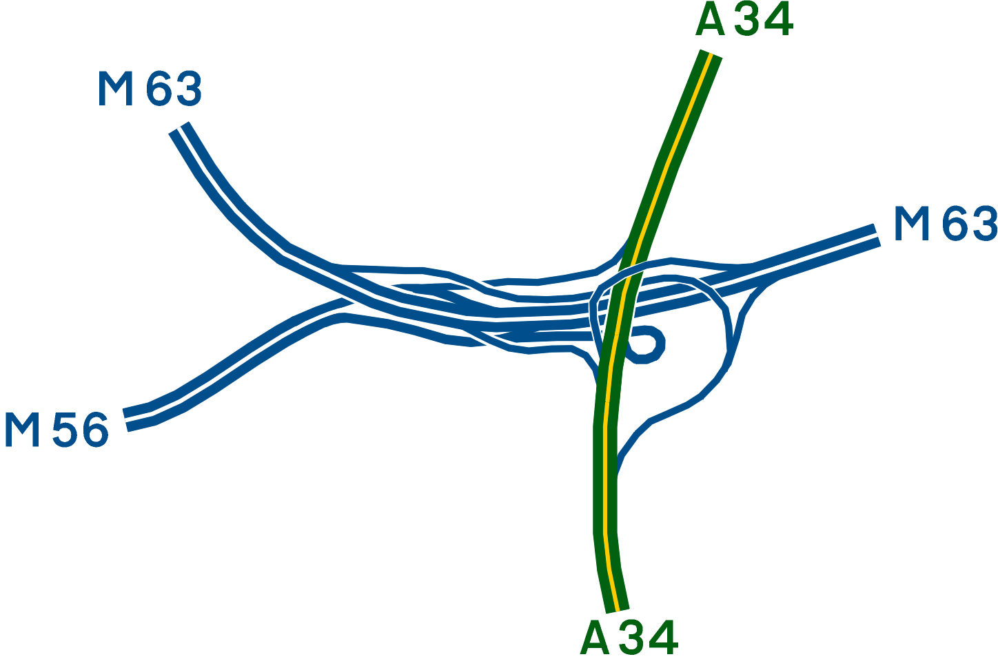 The M56/M63/A34 Kingsway Interchange, before renumbering to M60